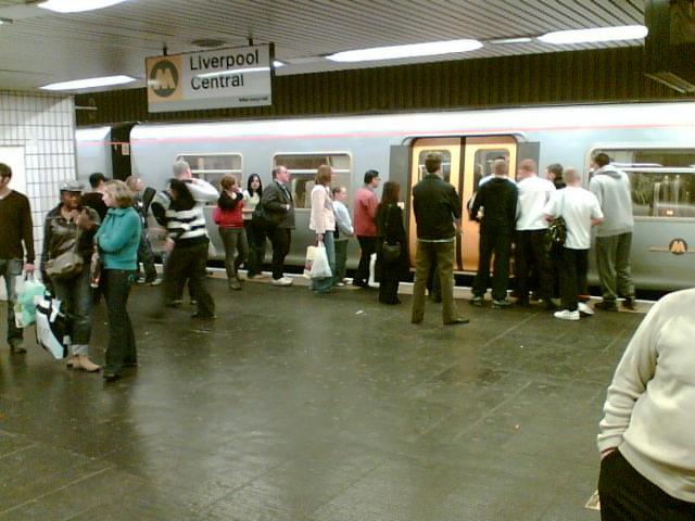 Liverpool Central railway station.